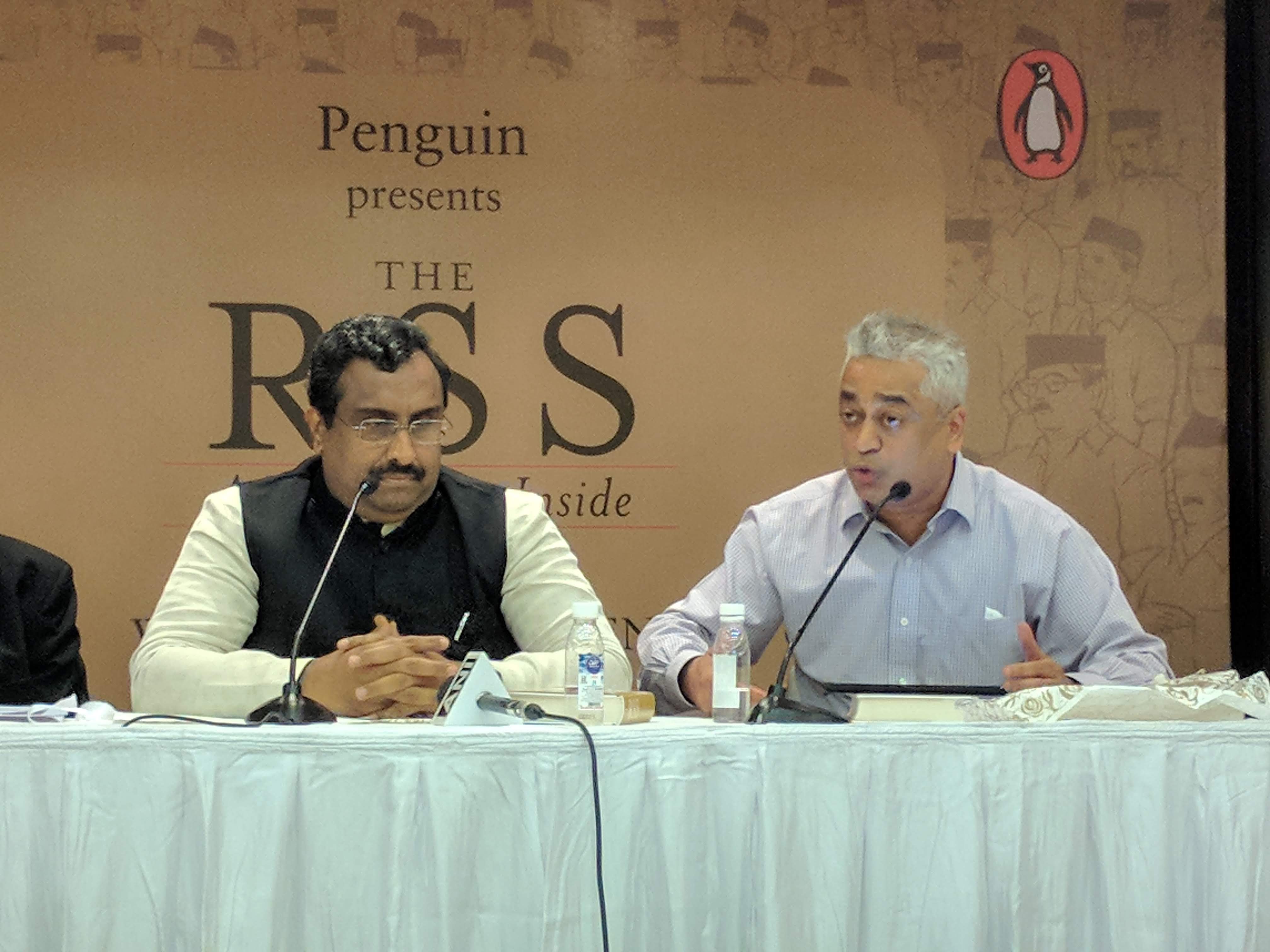 Ram Madhav and Rajdeep Sardesai during a panel discussion during the book launch of "The RSS" published by Penguin